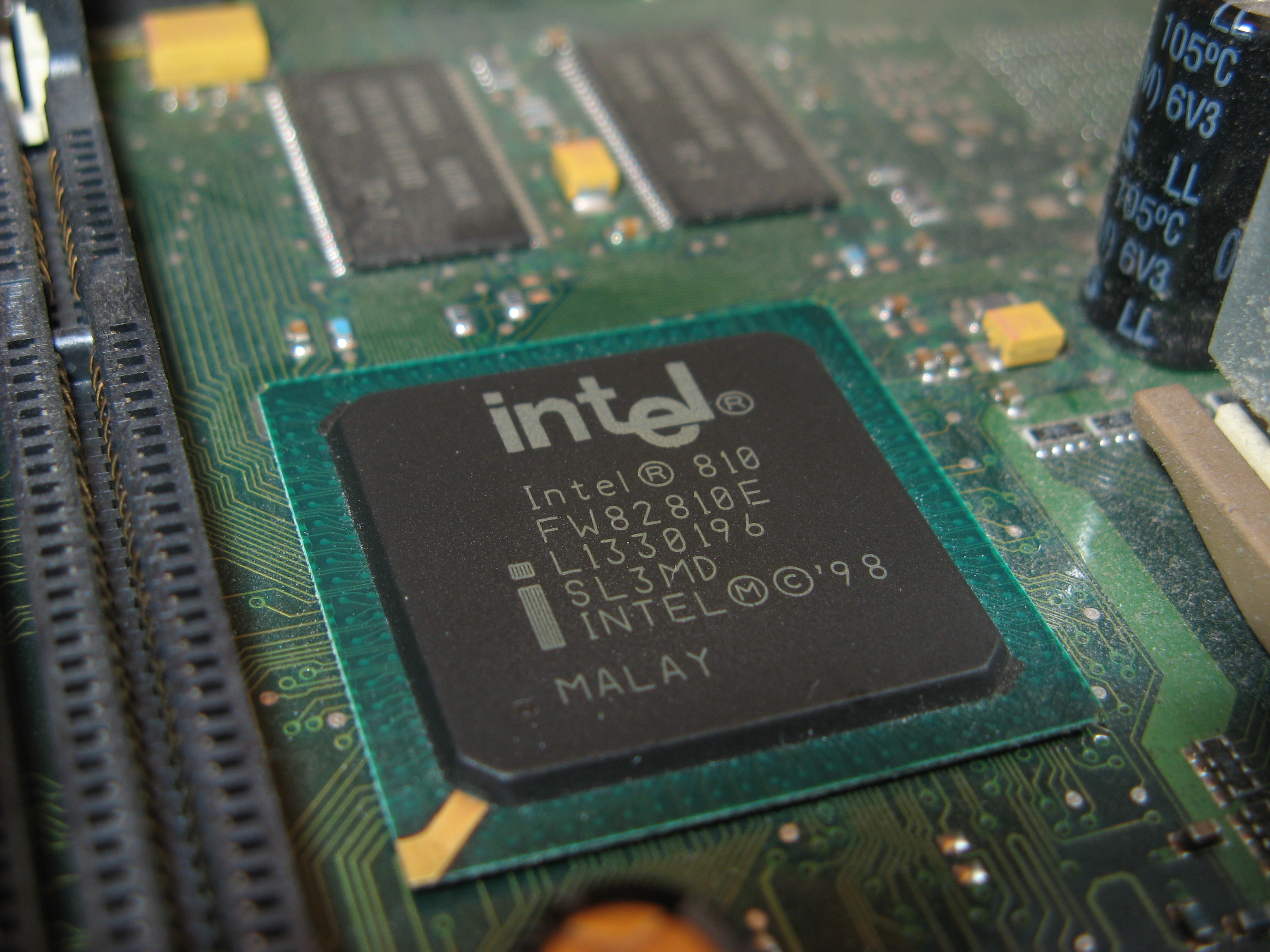 Intel i810E Northbrigde with IGP, one of the rare implementations with additional display cache (2-4 MiB of OnBoard memory, see the two memory chips in the background)